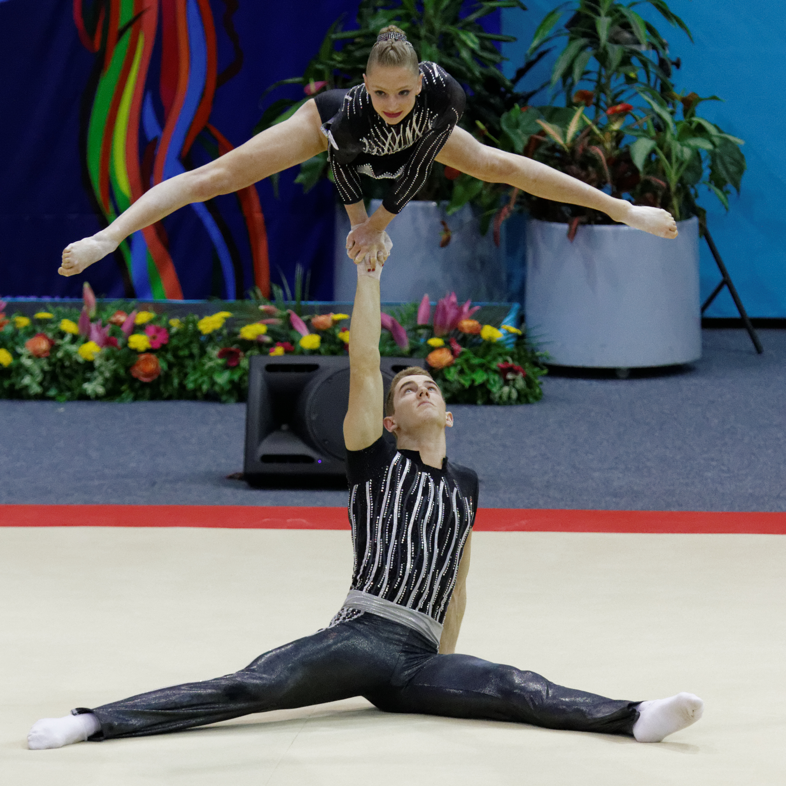 2014 Acrobatic Gymnastics World Championships, 10th-12 July, Levallois-Perret, France. Finals: mixed pair. France.